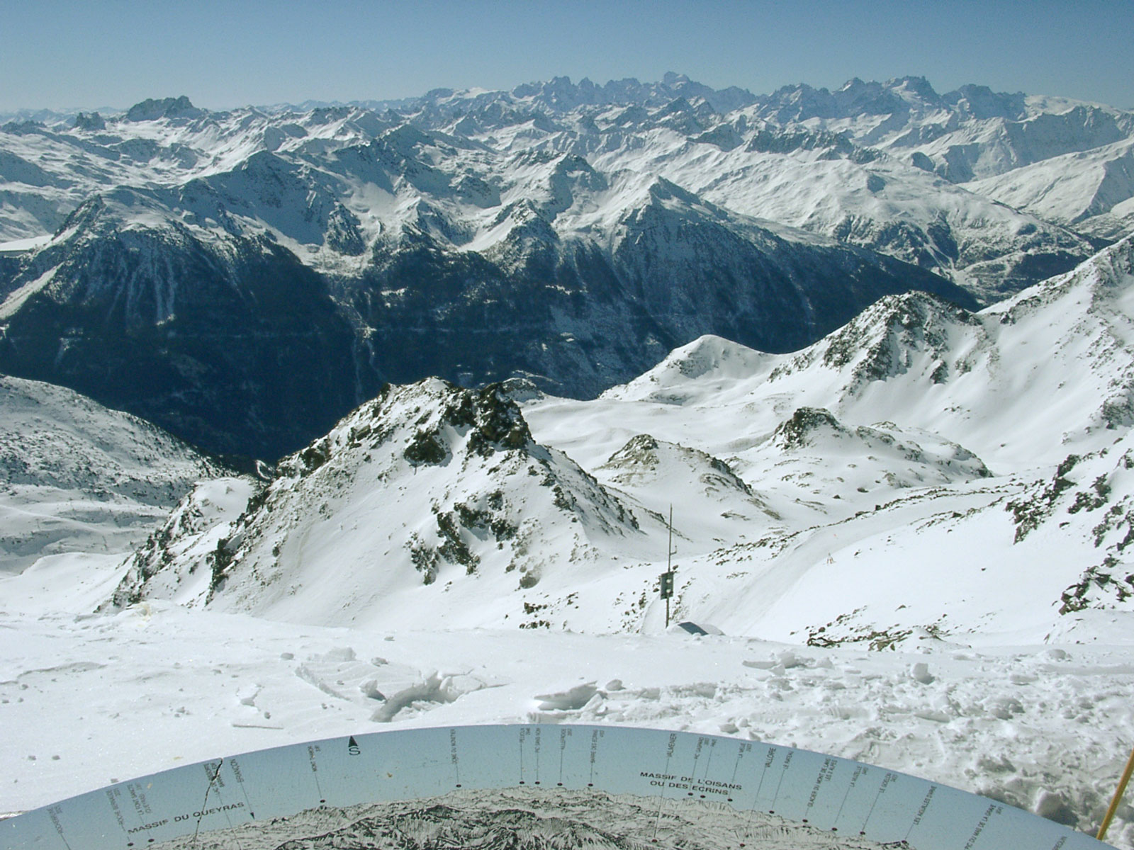 Panorama taken at the Cime Caron in Val Thorens (February 2005); Height: 3200m (10 500 feet) Place